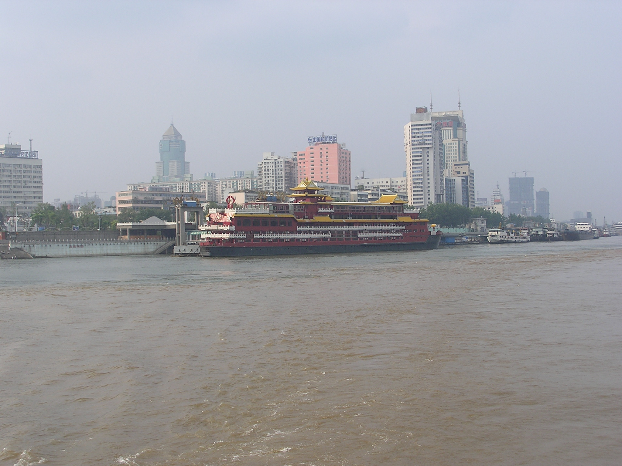 View at the Wuhan city district of Hankou